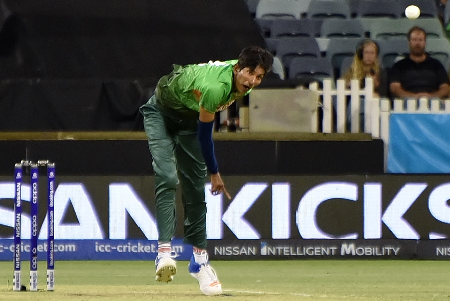 Panna Ghosh bowling for Bangladesh against India during their 2020 ICC Women's T20 World Cup match at the WACA Ground in Perth, Australia